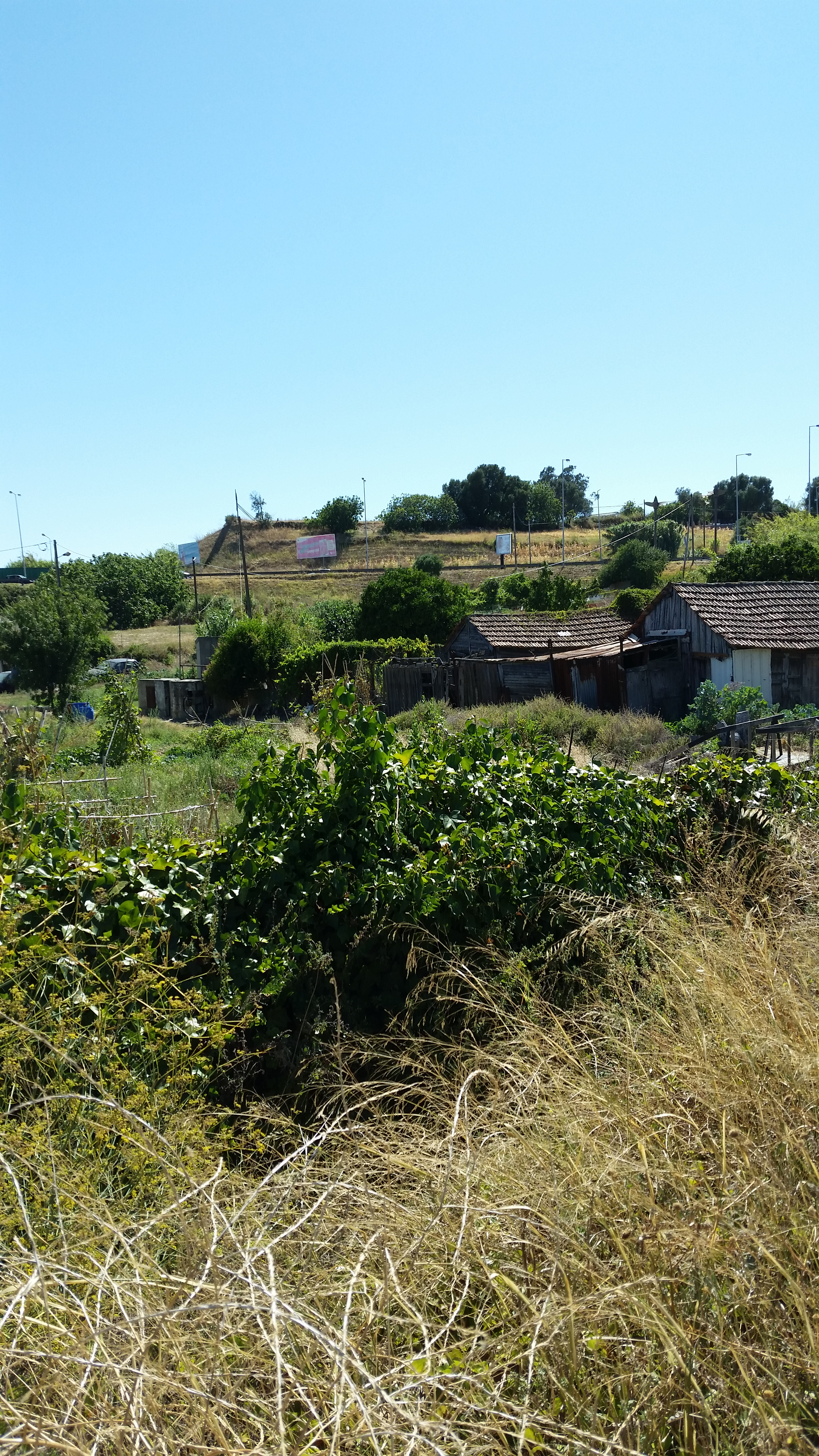 Houses in Alcaniça, Monte de Caparica